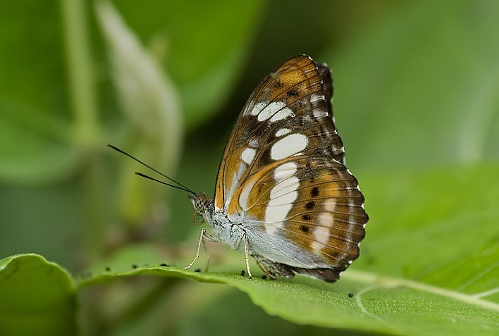 By Dhaval Momaya during August 2007 at Maredumilli Reserve Forest, Rajahmundry, Andhra Pradesh.